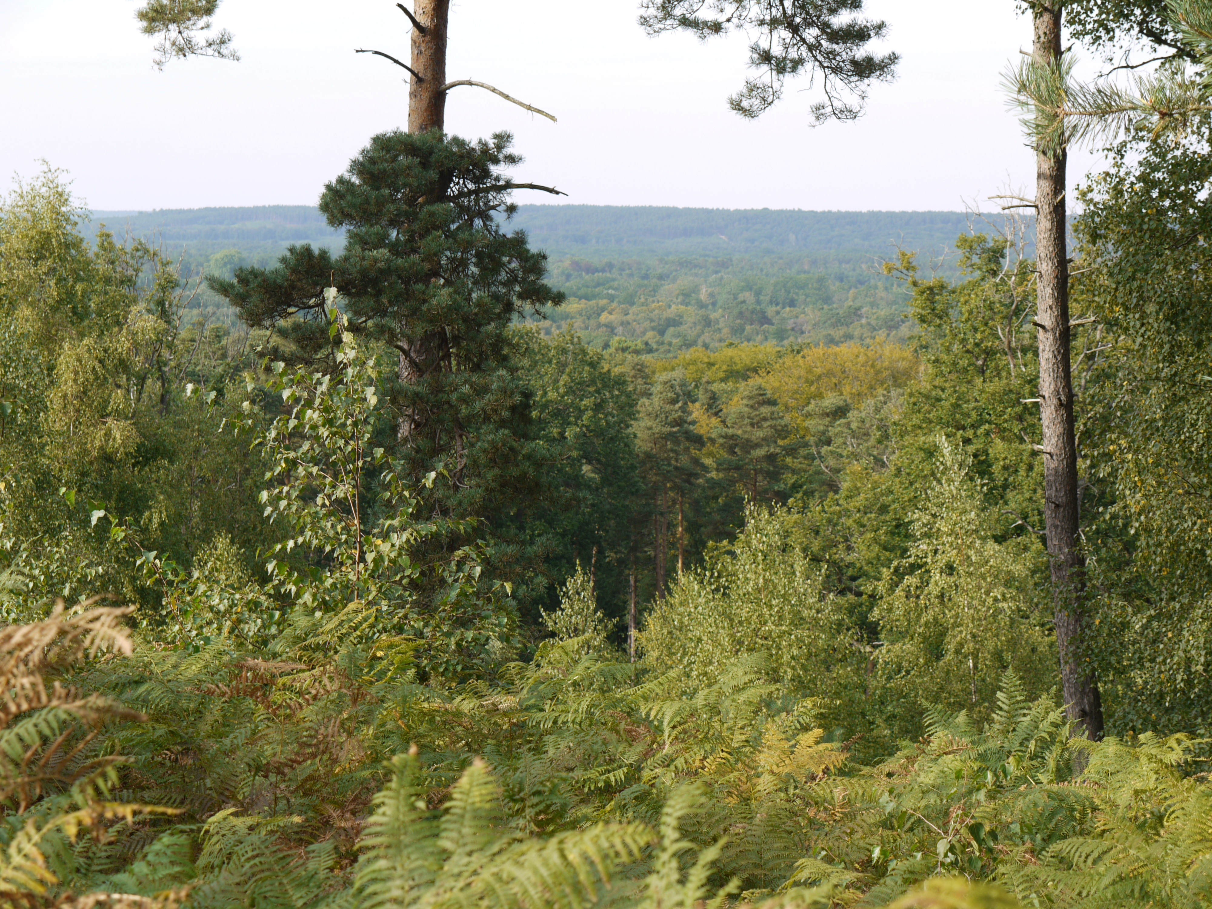 Foret de Rambouillet, Ile de France